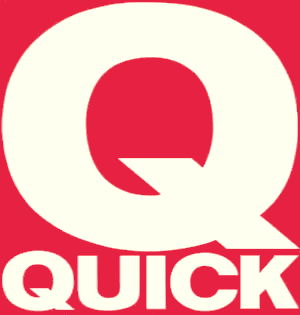 Masthead of Quick, Magazine, Germany, 1948 to 1992.